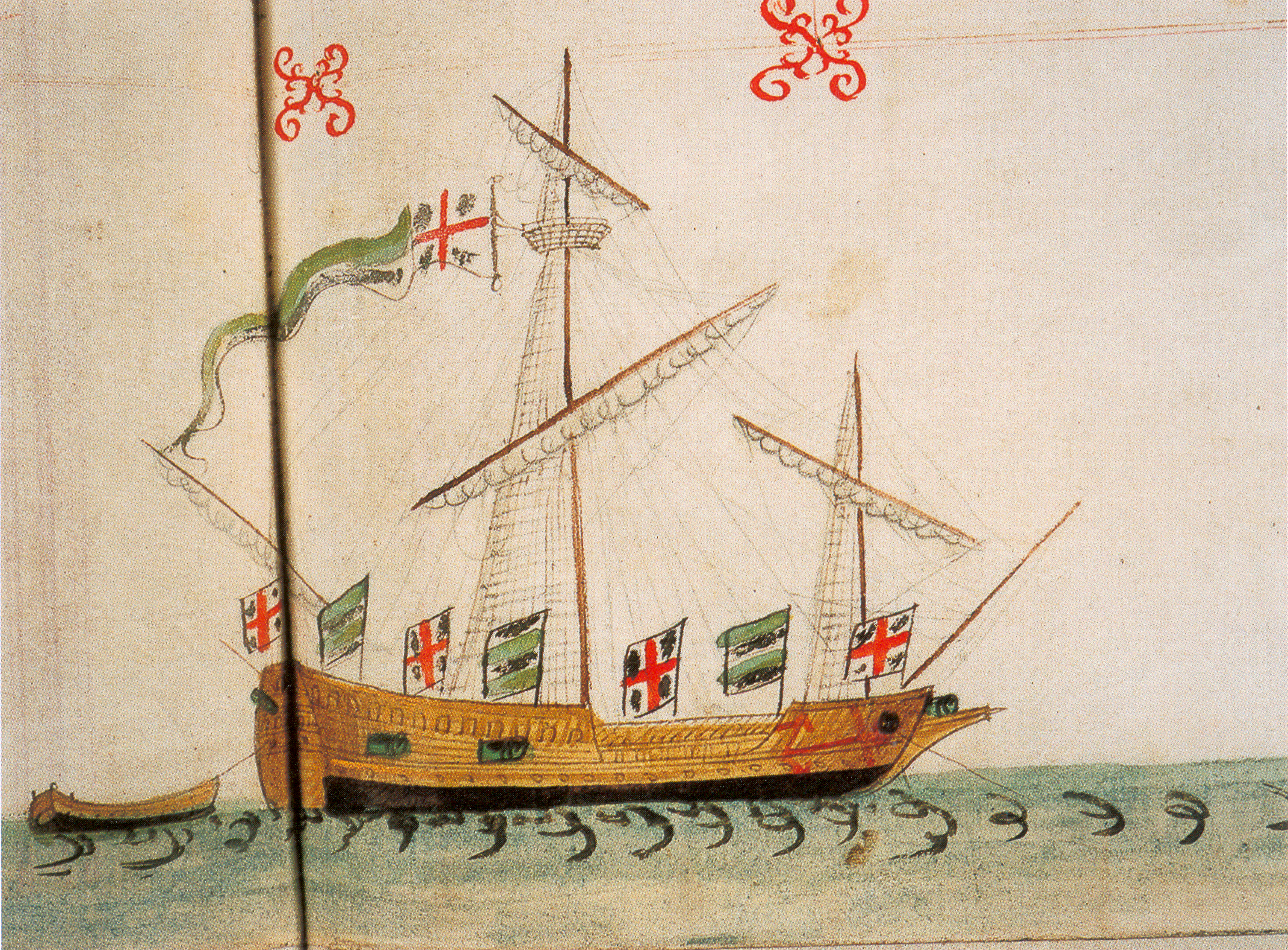 Illustration of the pinnace Saker. Notification about possible deletion Cathsuth (talk) 16:19, 9 February 2017 (UTC)